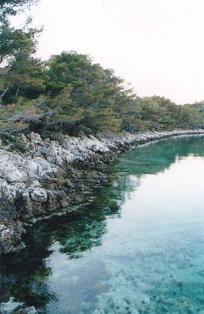 Lastovo, Croatia.